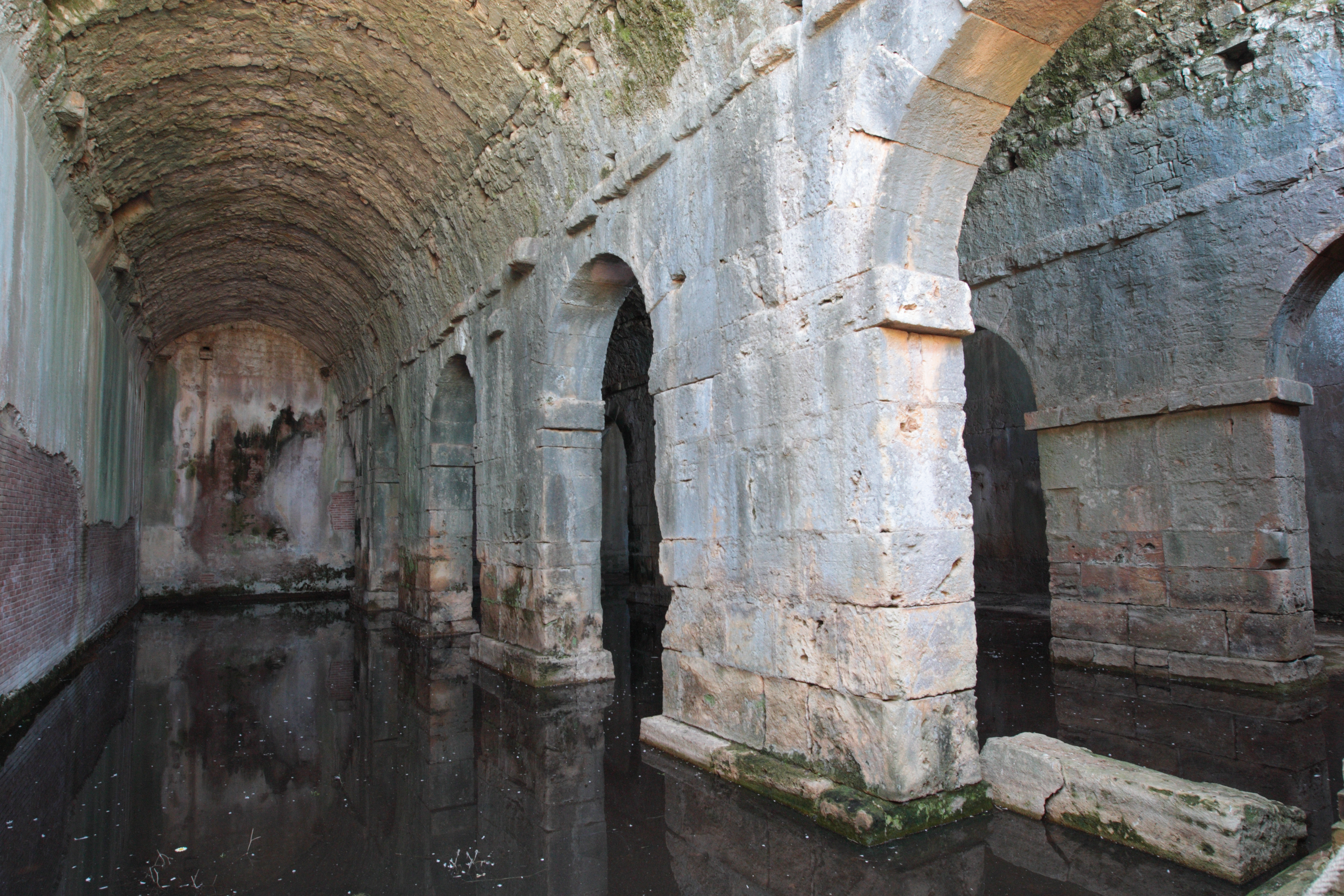 The cisterns of Aptera ( Crete ) are dating back to Roman times, Aptera, Crete